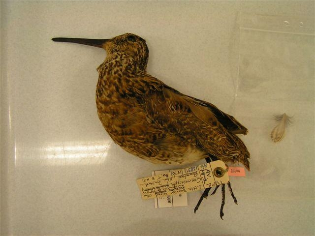 North Island snipe (Coenocorypha barrierensis)